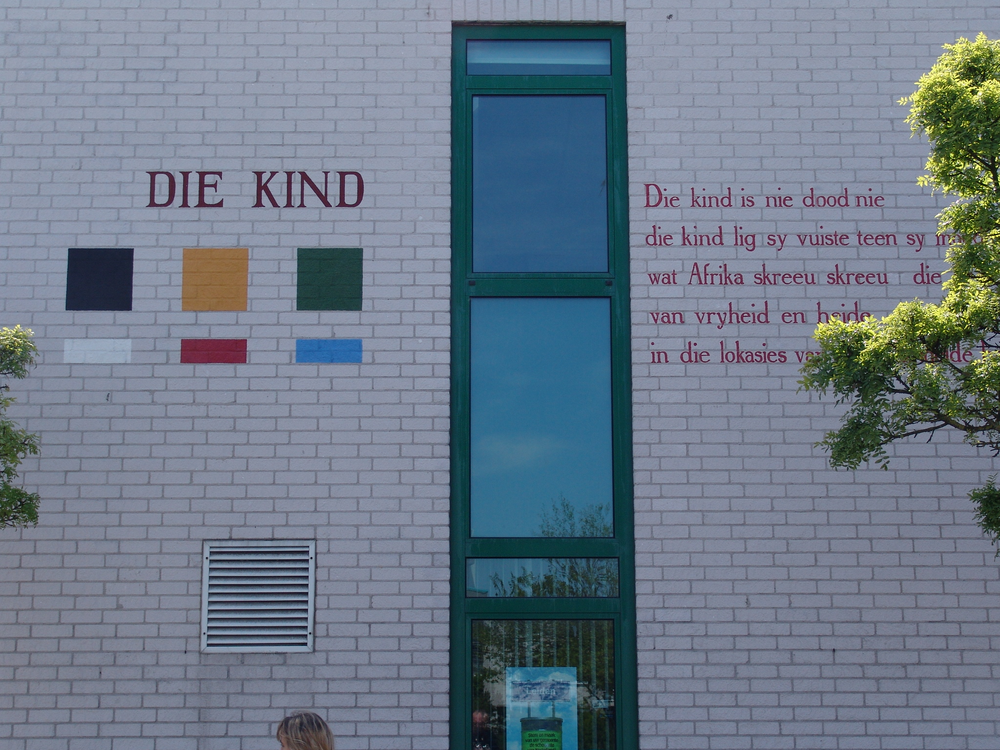 Wallpoem in de city of Leiden in the Netherlands.